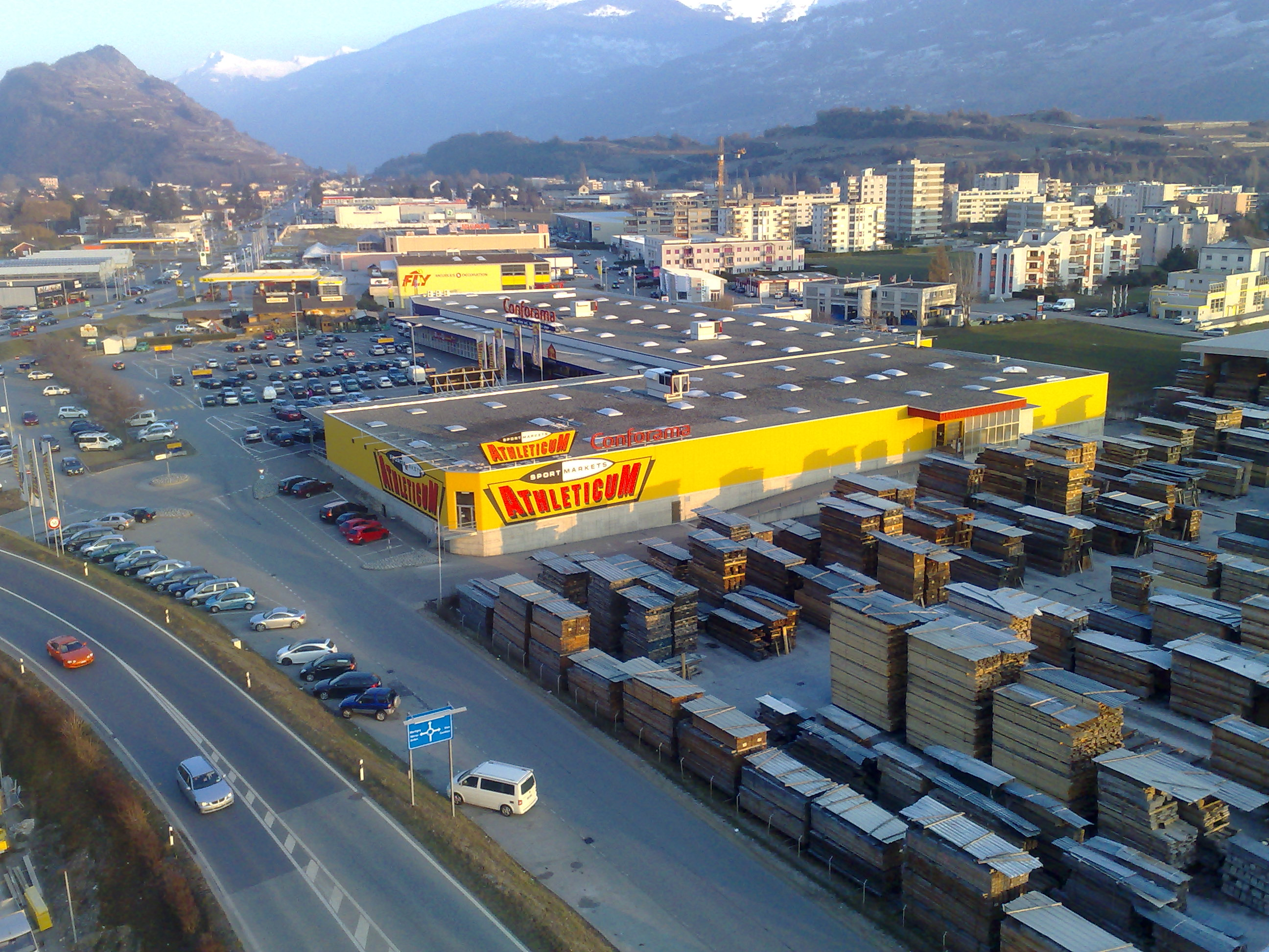 Conthey, Switzerland